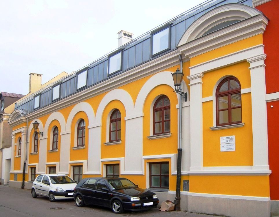 Former mikvah in Zamość (Poland) after repair (2015)